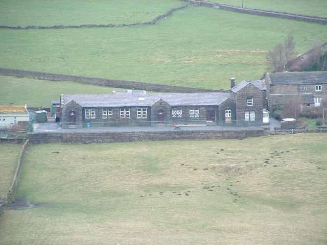 Colden School Colden J&I school, Colden near Heptonstall.